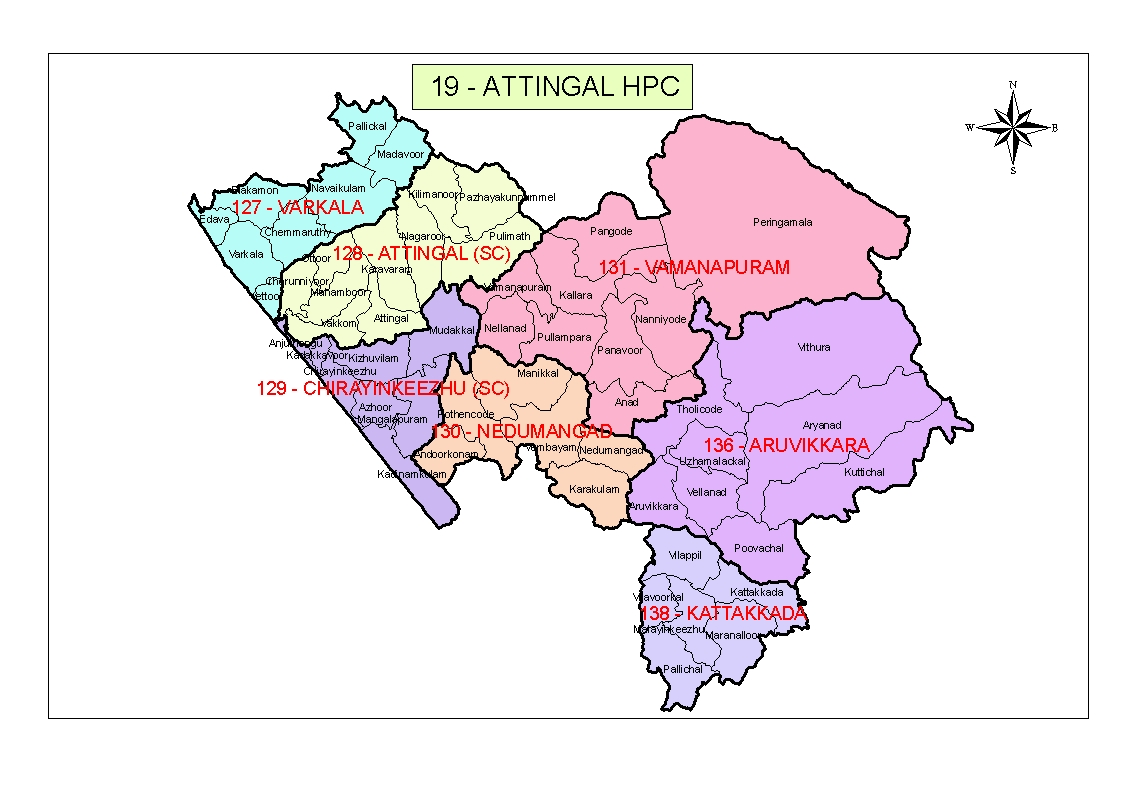 This is the map of Attingal Lok Sabha Constituency